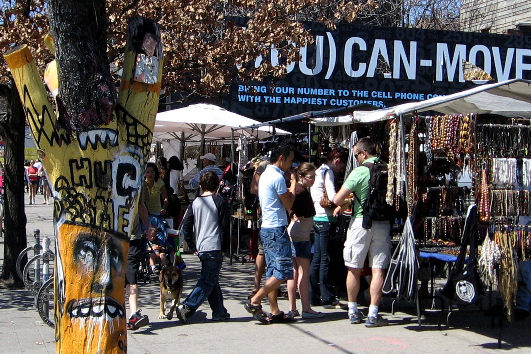 Shoppers, vendors, and artwork on Queen St. W. near Peter St. Toronto, Canada. In the foreground stands the "Hug Me" tree (see [1] and [2]), which later fell down and was temporarily displayed at the Royal Ontario Museum.